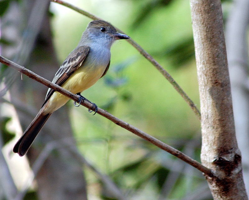 Brown-crested Flycatcher (Myiarchus tyrannulus).